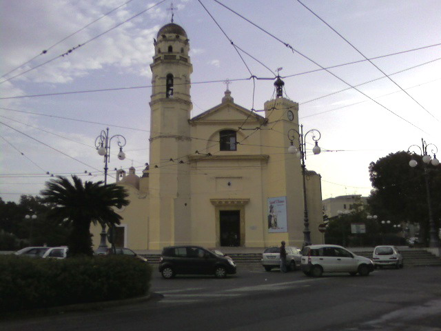 Church of St Helena in Quartu Sant'Elena (Sardinia, Italy)